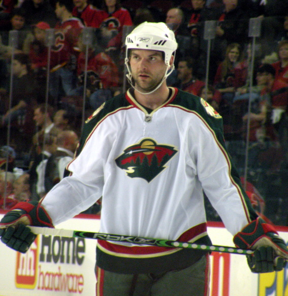 Minnesota Wild defenceman John Scott during warm-up prior to a National Hockey League game against the Calgary Flames in Calgary.